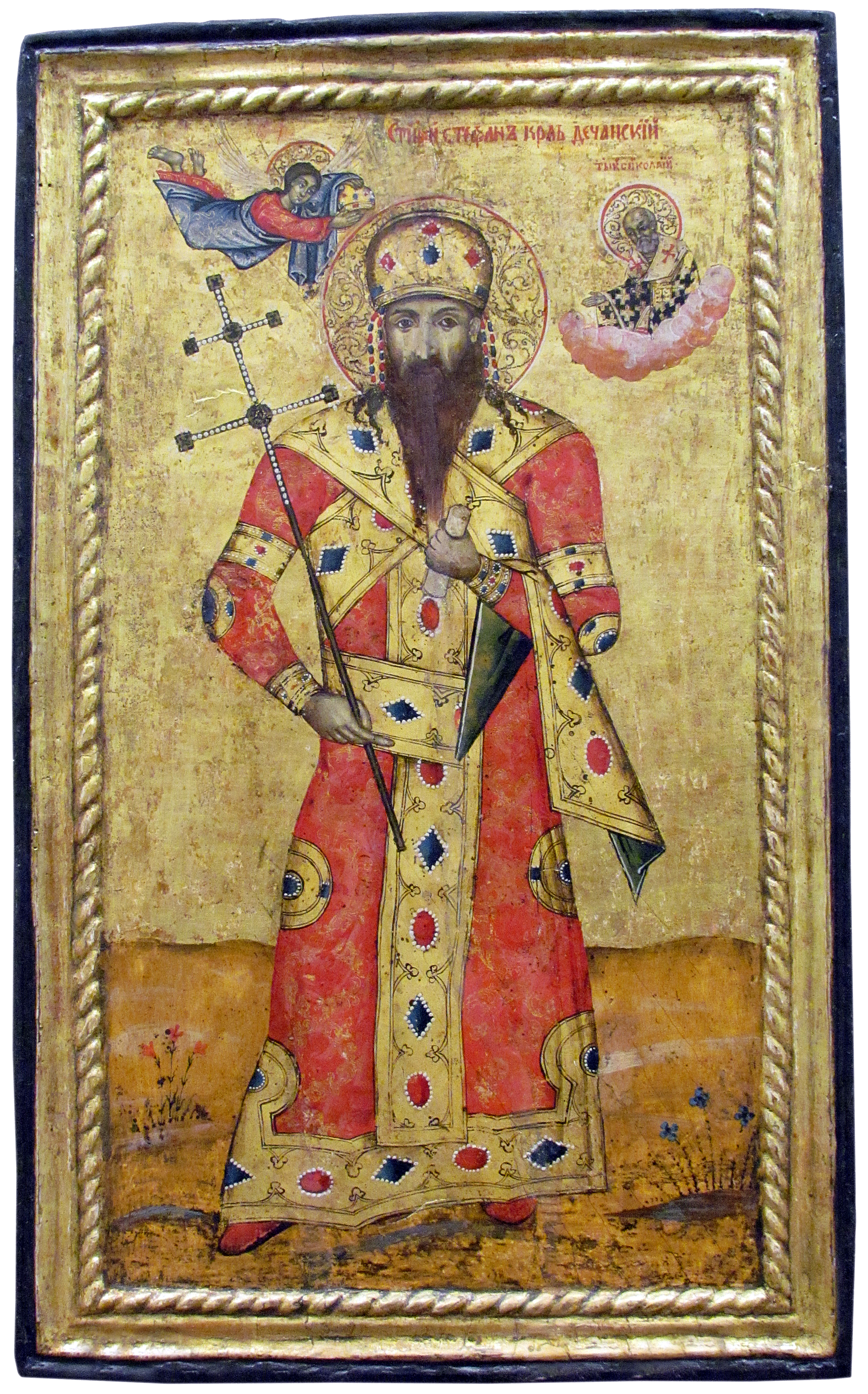 St. Stefan Dečanski with an angel and St. Nicolas, 18th c, Ohrid, National Museum of Serbia